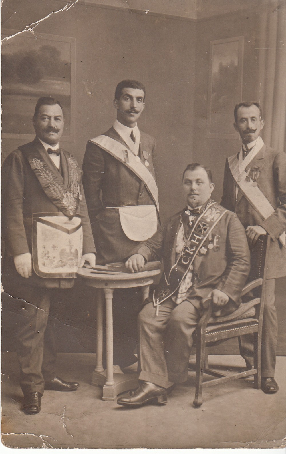 Dragan Tapkov and other Freemasons from Salonica Star.